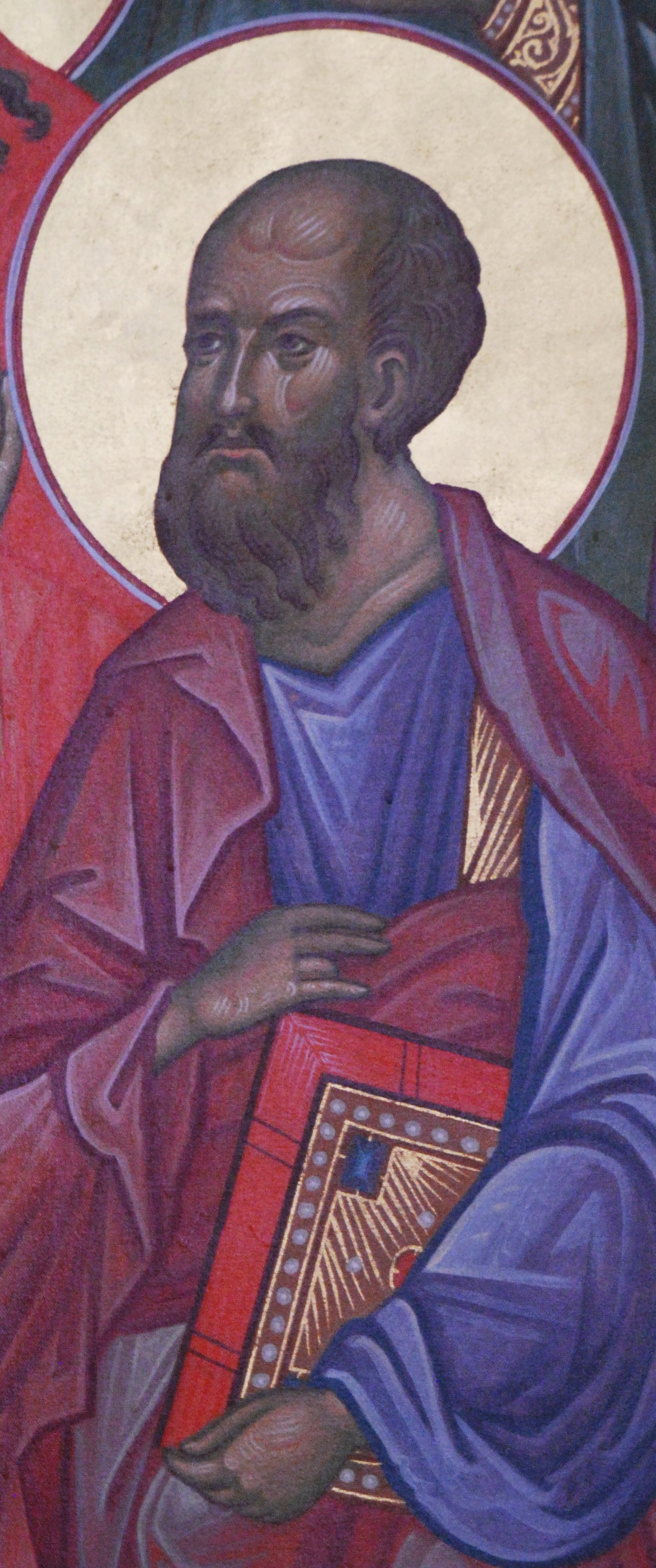 Saint Paul the Apostle, St. Paul the Apostle Orthodox Church, Dayton, Ohio.